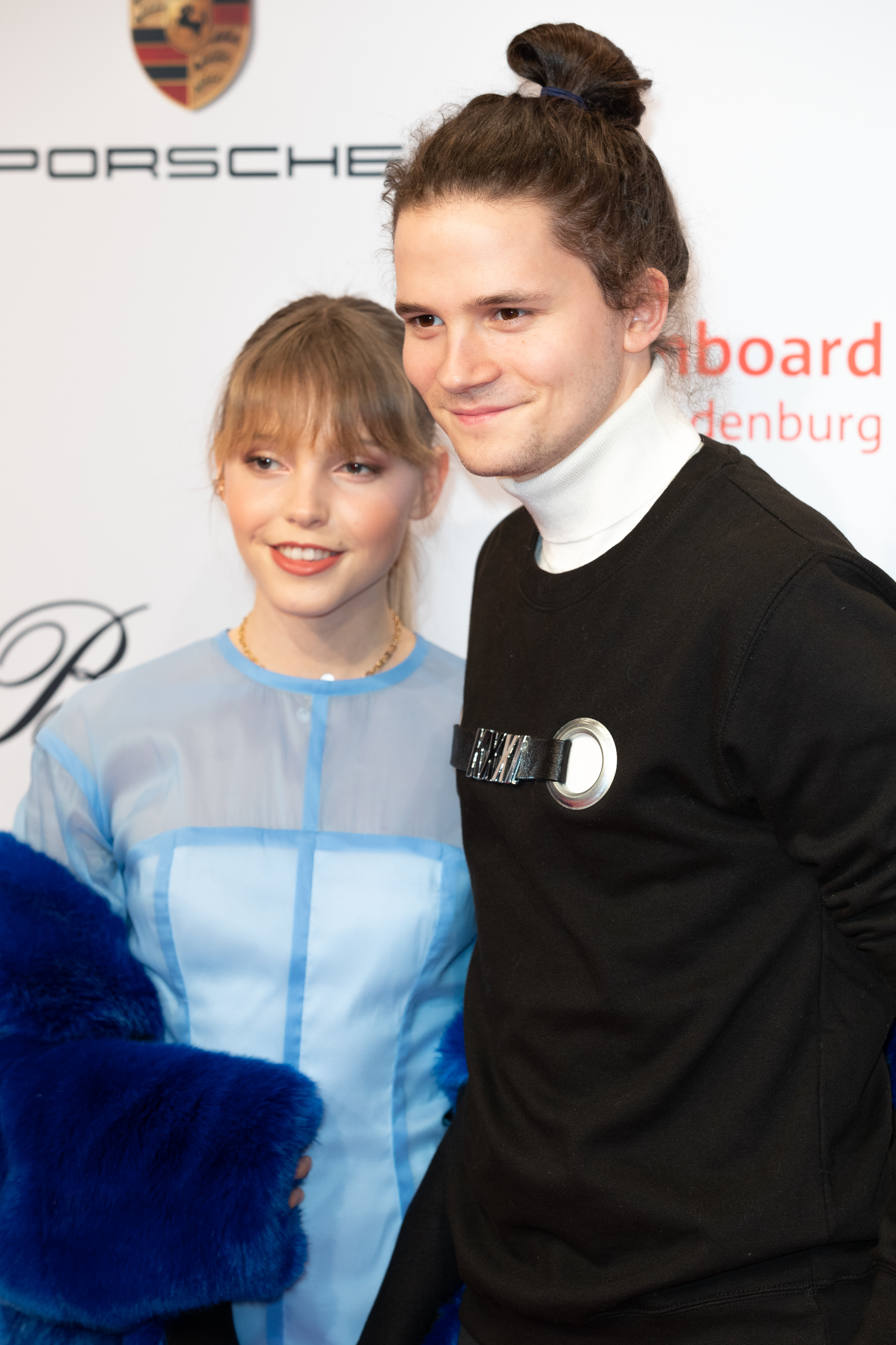 Actress Lina Larissa Strahl and actor Tilman Pörzgen at the Medienboard Party on the occasion of the 69th Berlinale in Ritz-Carlton, Potsdamer Platz